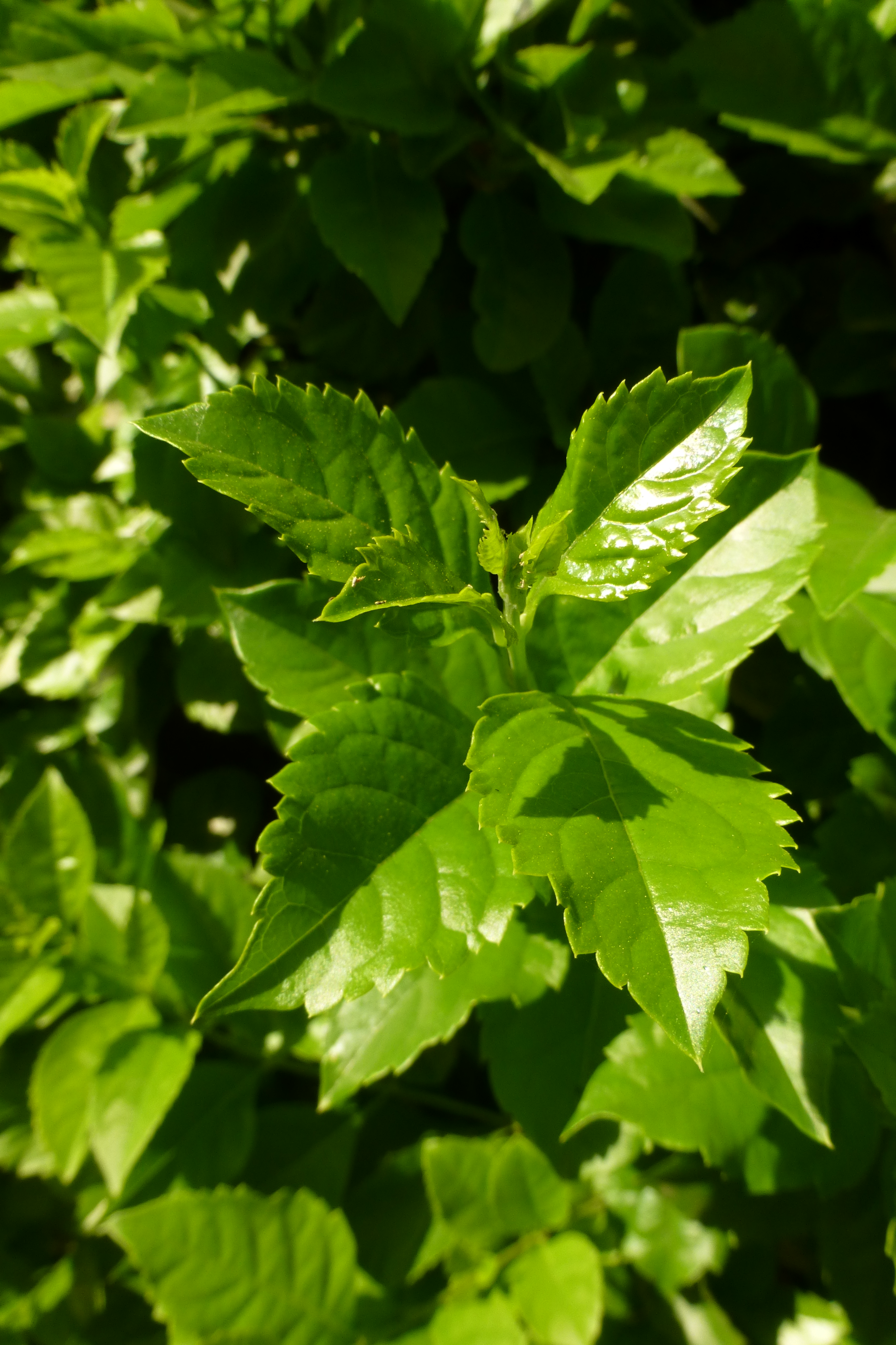 Ramat Gan Leaves